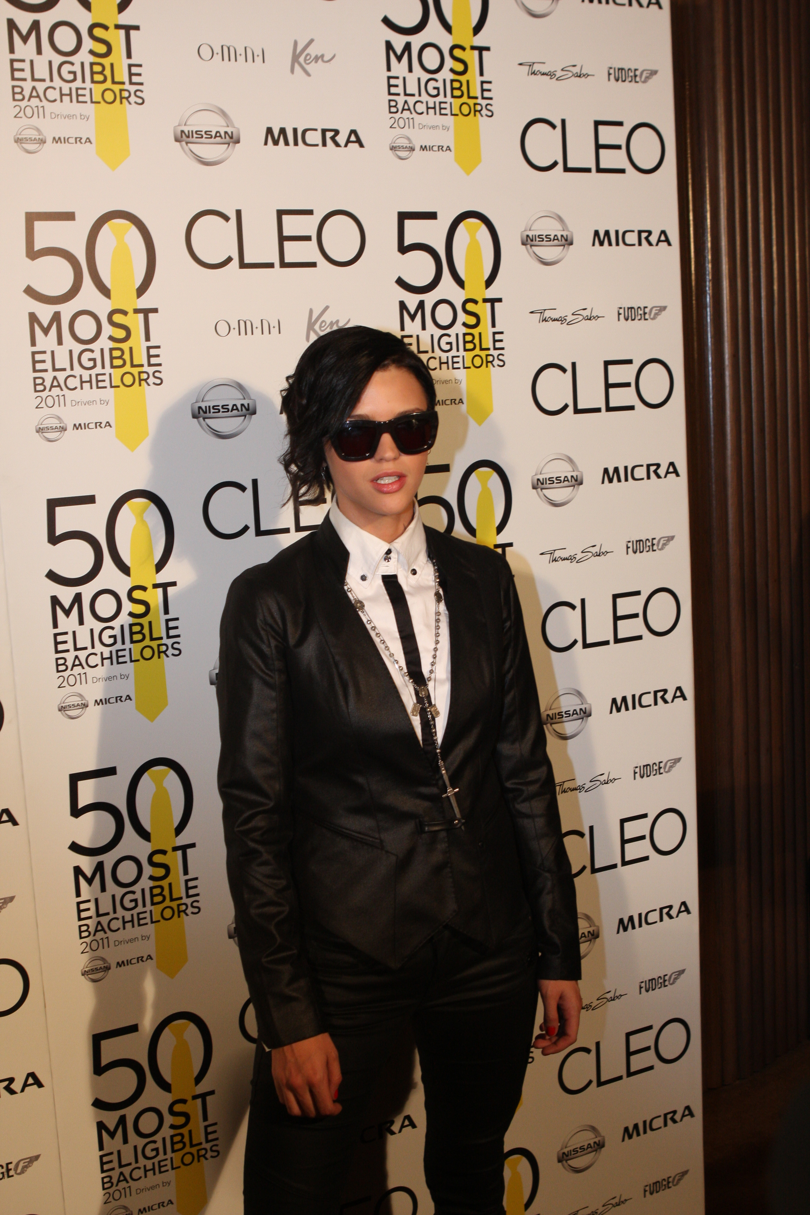 CLEO BACHELOR 2011 Ruby Rose